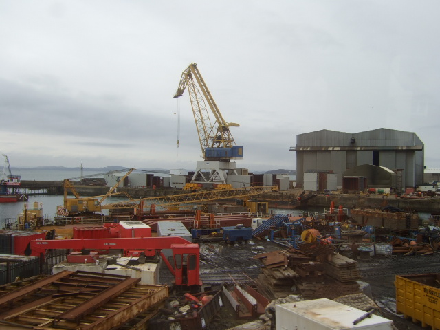 Burntisland Fabrication yard From the Edinburgh - Dundee railway.